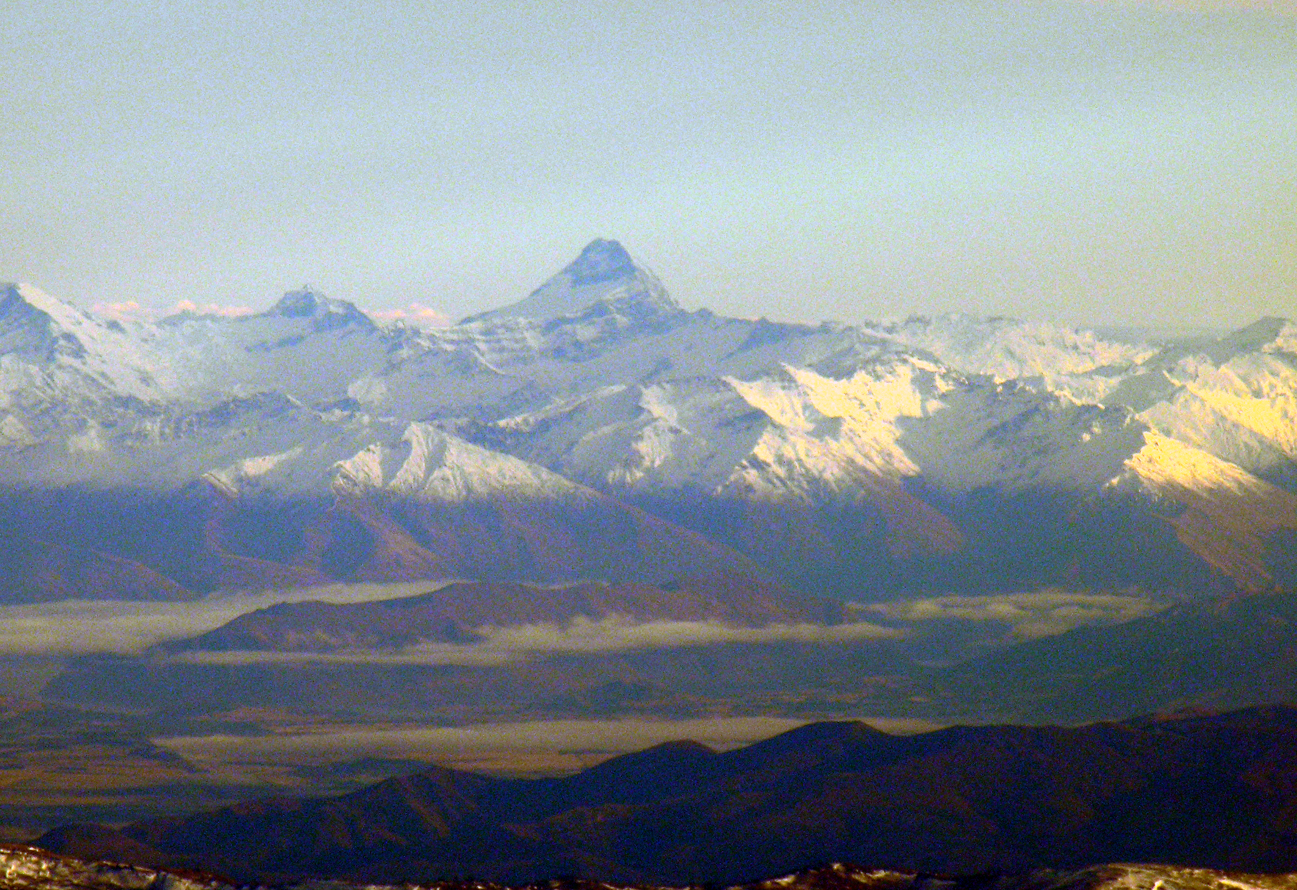 En route Christchurch to Invercargill - Mount Aspiring - Otago, New Zealand